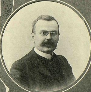 Władysław Grabski